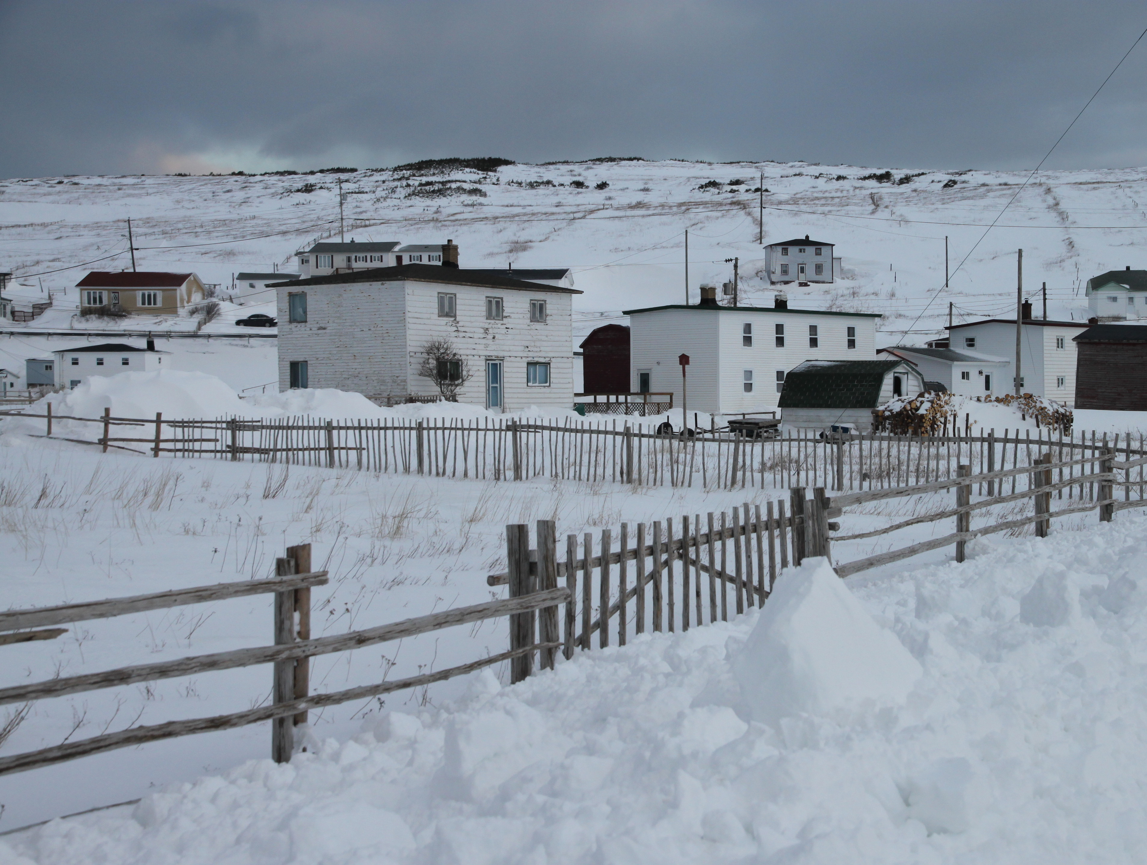 NEWFOUNDLAND & MARITIME CANADA